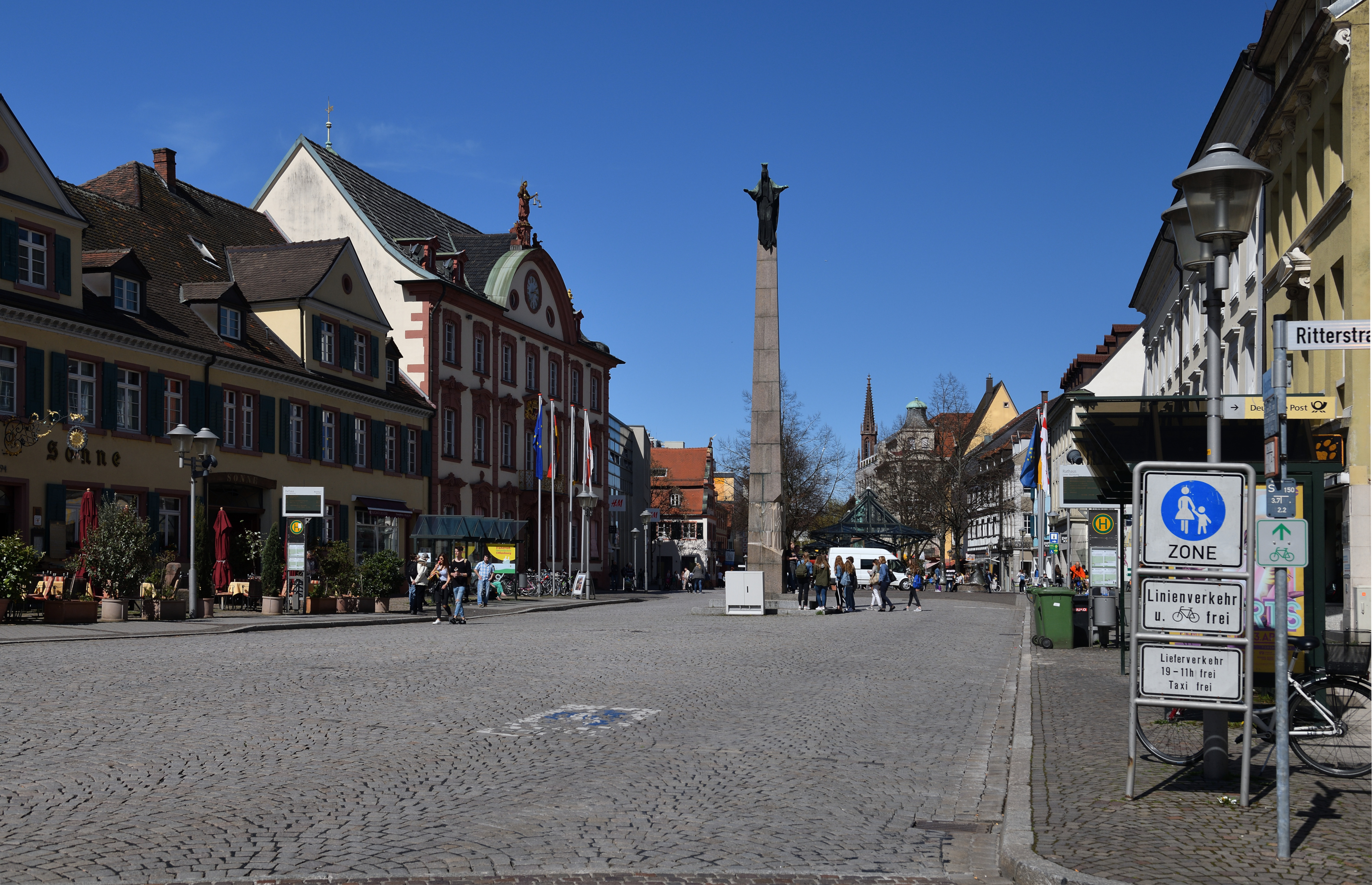 Offenburg: City Hall